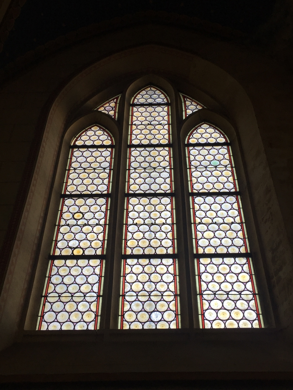 desc